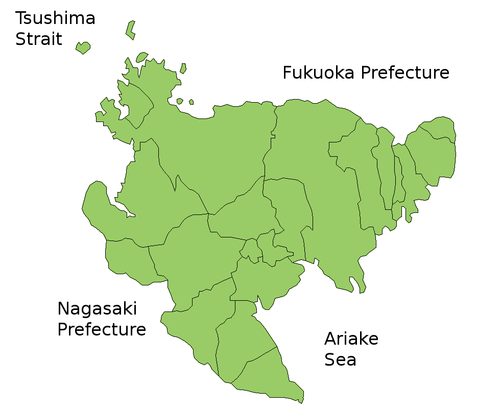 Map of Saga Prefecture, Japan. Thanks to Aoki Shigenobu and [1]. Colors from Image:TokyoMapCurrent.png by User:Fg2.